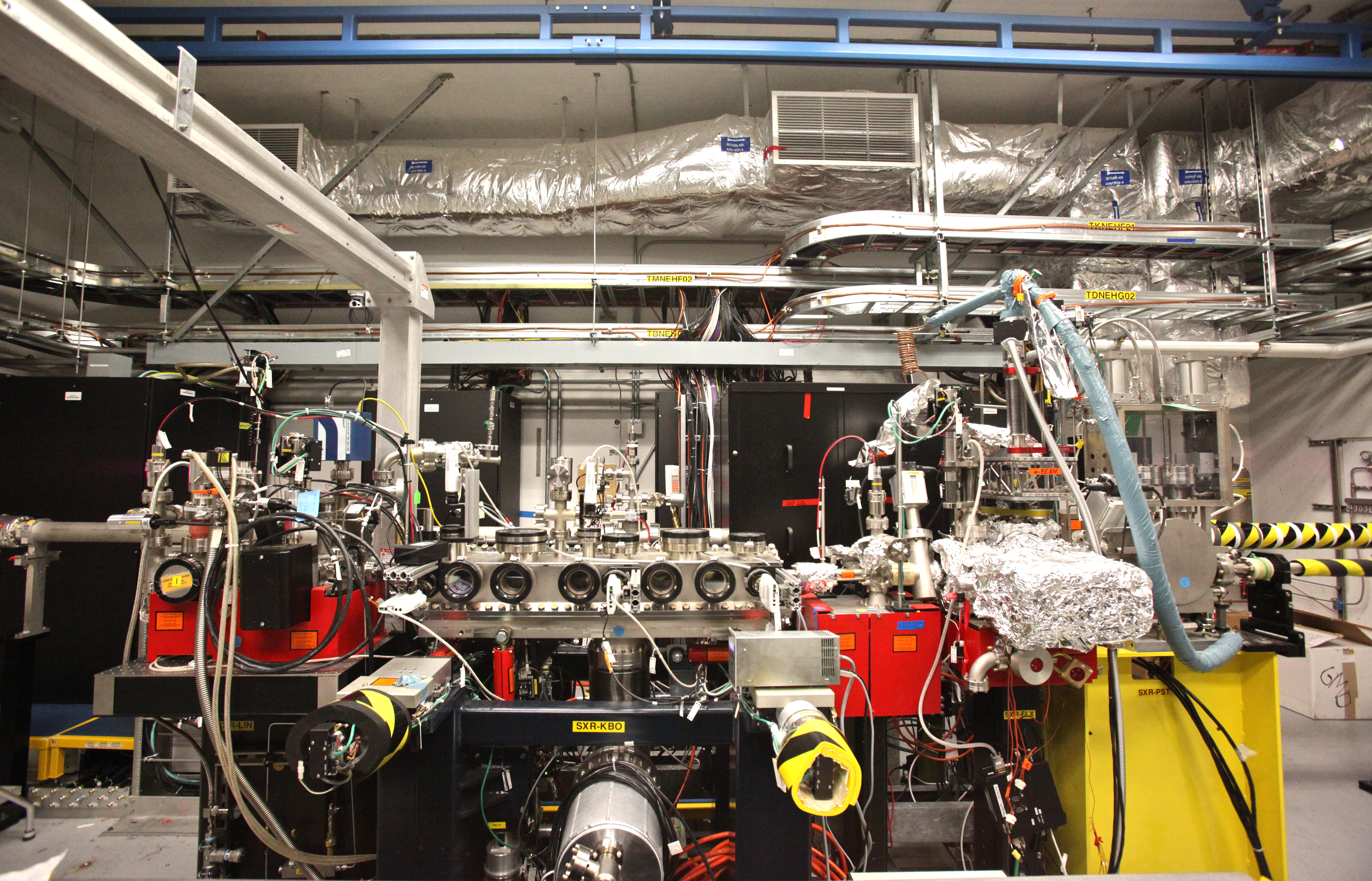 The experimental end of the world’s brightest x-ray laser, generated by the linear accelerator at SLAC. SXR will probe ultrafast chemistry with flash imaging of a quadrillionth of a second. Inside this focusing optics chamber, two elliptically bent mirrors direct the FEL (free-electron laser) beam into the experimental chamber. Dynamically bent mirrors (silicon mirror bent with actuators) can be adjusted to focus the beam into an arbitrary position in the endstation to change the focal spot on the sample, depending upon the experimental requirements. Mirrors with glancing angles are generally used for x-rays instead of lenses (although they are now starting to use beryllium concave lens arrays for the hard x-rays in the hutch next door). The planar-elliptically bent mirrors are called Kirkpatrick Baez mirrors, named after the inventor - Joan Baez’s dad. It’s all Diamonds & Rust.